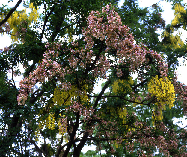 This is a scan from a medium-format transparency which I took at the Chelsea Physic Garden some time during the 1980s. It shows a tree of +Laburnocytisus 'Adamii', a so-called "graft hybrid" or "graft-chimaera". This tree was created by grafting a purple broom, Cytisus purpureus, onto a laburnum, and has flowers typical of both plants as well as some which are intermediate between the two. For more information, see 'Adamii'].